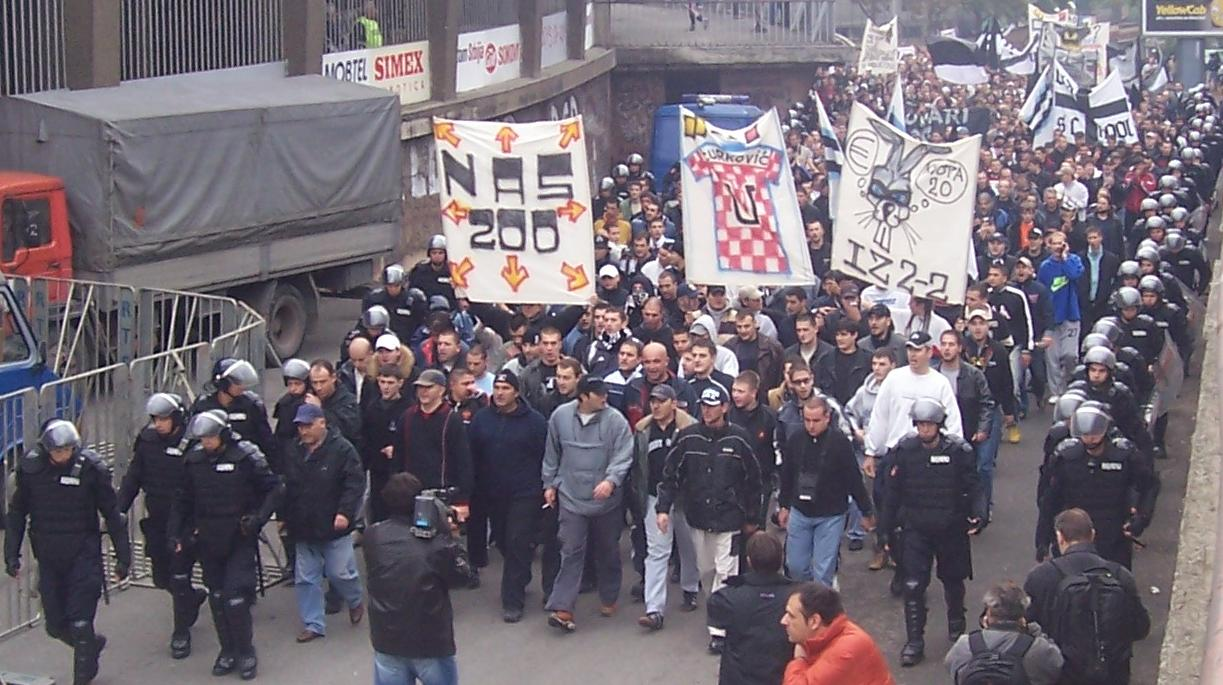 Grobari tokom protesta u oktobru 2005.